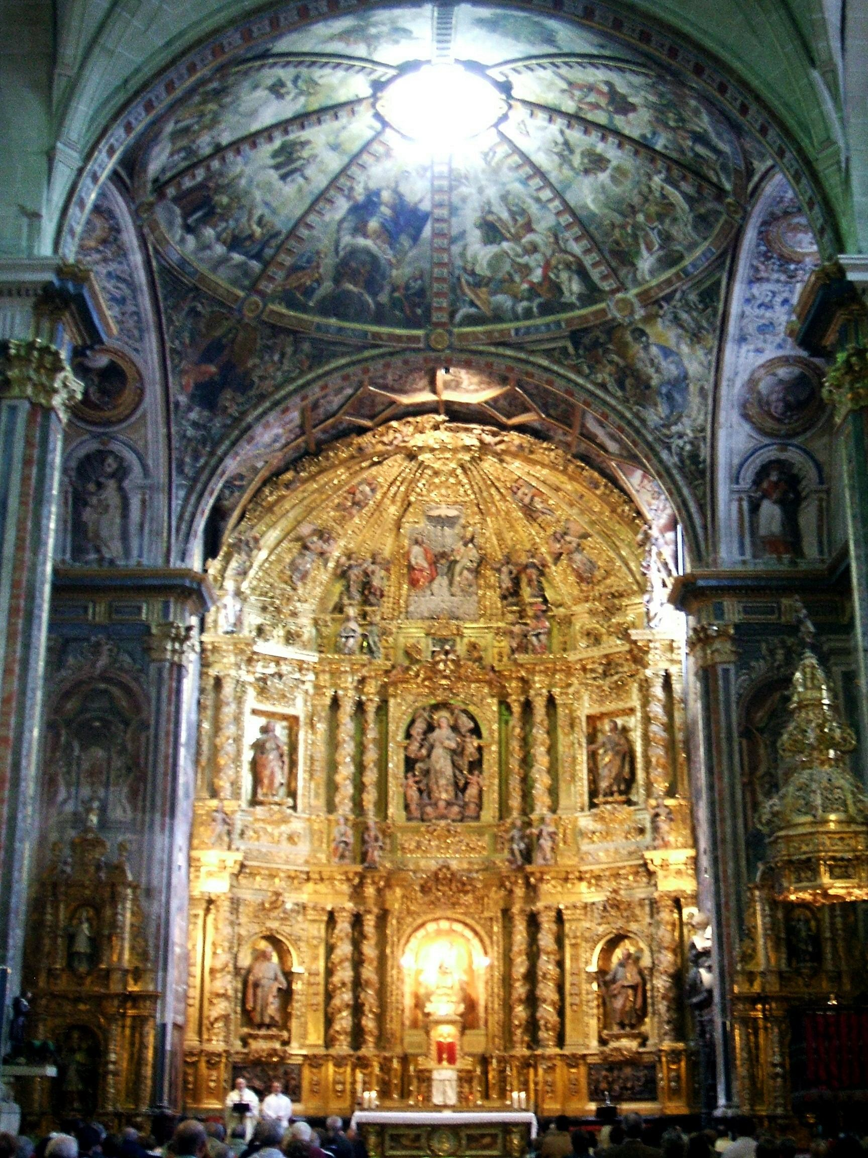 Iglesia parroquial de Nuestra Señora de la Asunción, Labastida, Álava, Euskadi, España.